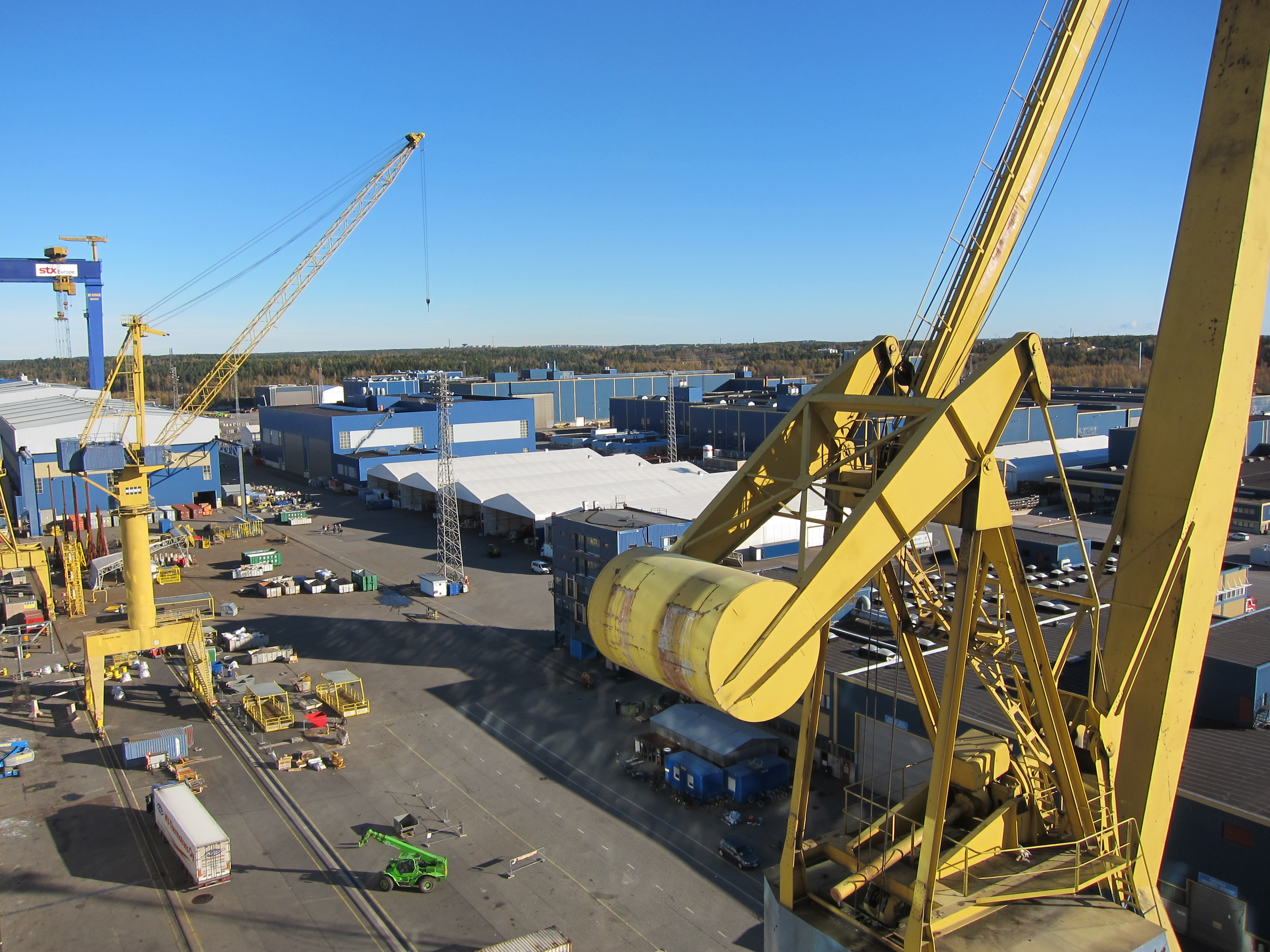 View from MS Allure of the Seas at STX Europe shipyard Turku, Finland.